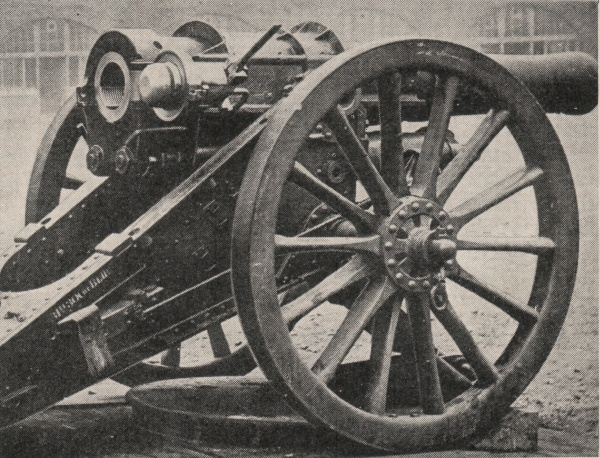 Photograph of British BL 6 inch 30 cwt Howitzer with breech open.